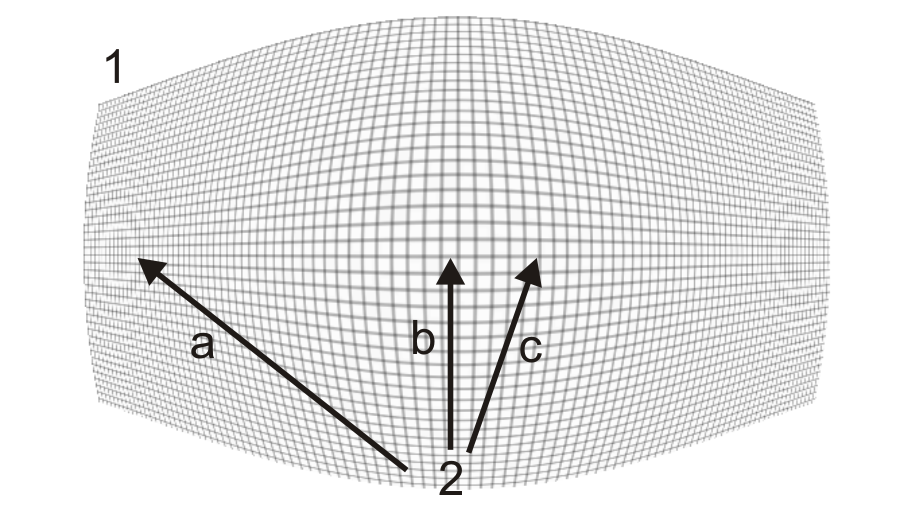 Wall in spherical perspective